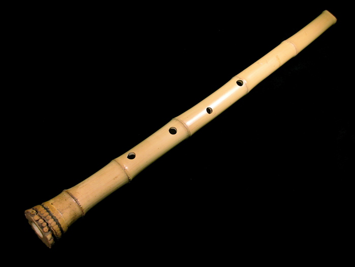 Hocchiku all natural root end shakuhachi flute